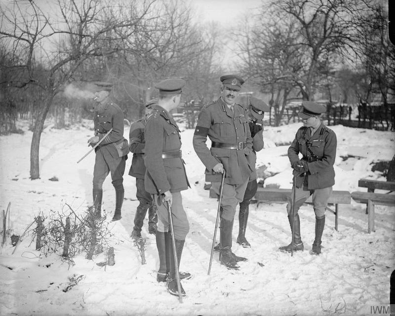 The Royal Visits on the Western Front, 1914-1918 Prince Edward, the Prince of Wales and Major-General Tom Bridges, commander of the 19th Division (in centre), after inspection of the 8th Battalion, North Staffordshire Regiment near Beaussart on 1st February 1917.